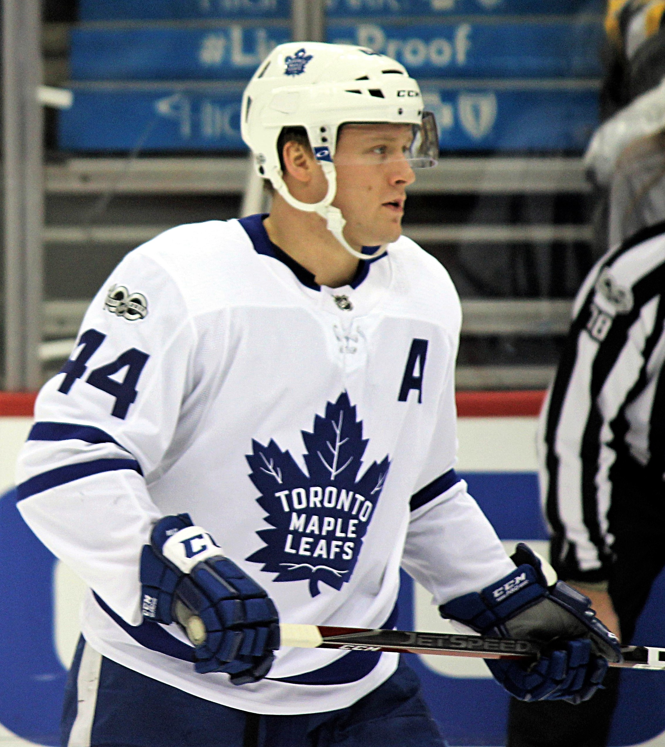 Toronto Maple Leafs defenseman Morgan Rielly during a game against the Pittsburgh Penguins, December 9, 2017, at PPG Paints Arena in Pittsburgh, PA.